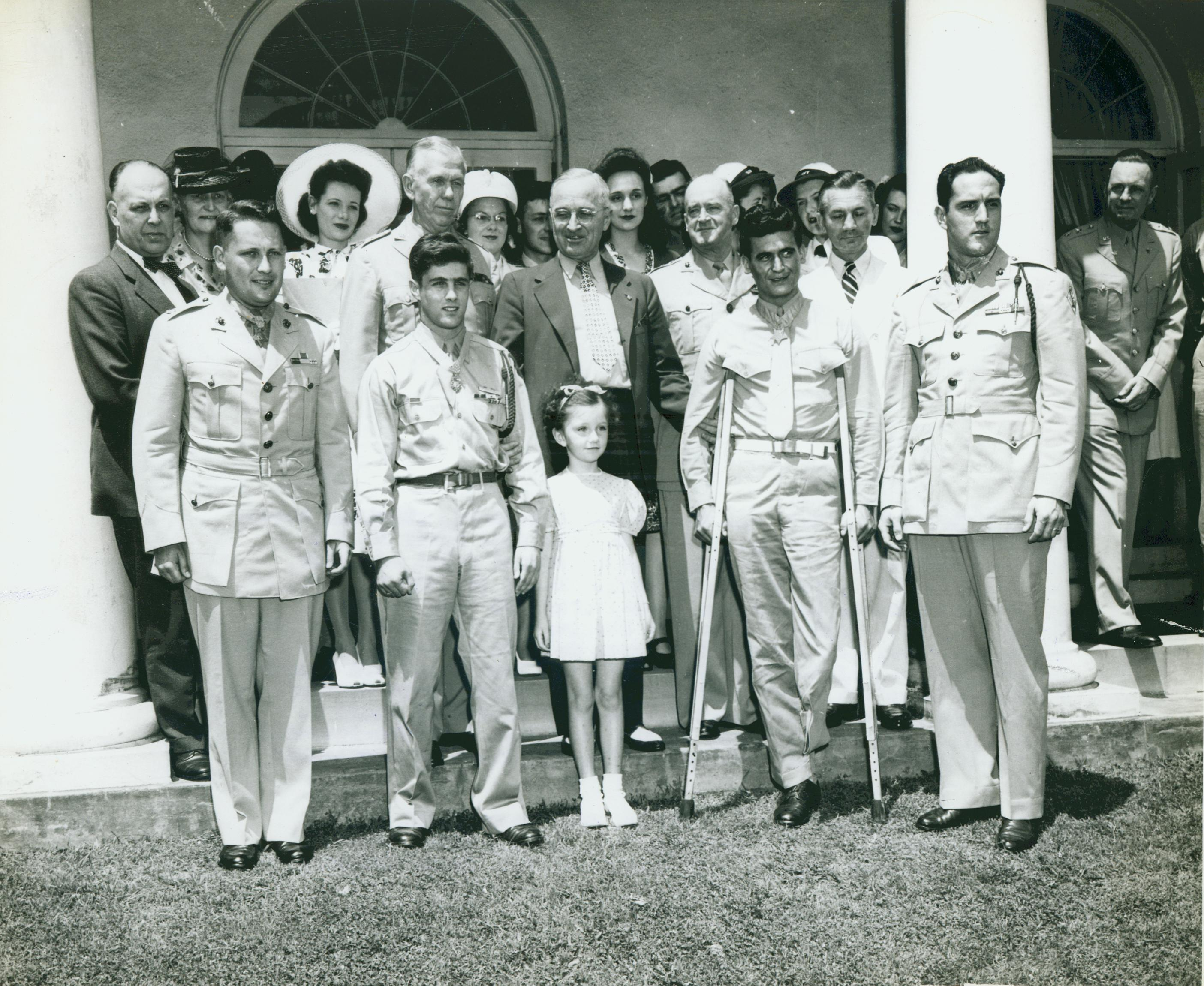 "Honor Men-Army, Navy and Marine Corps leaders, American heroes and their families photographed with President Harry Truman after presentation ceremonies. The uniformed Medal of Honor recipients are, left to right: Marine Major Everett P. Pope, of Wollaston, Mass.; Army PFC Gino J. Merli, Teckville, Pa.; Marine PFC Luther Skaggs, Jr., Henderson, Ky.; and Marine Lieutenant Carlton R. Rouh, Lindenwold, N.J. In the background are General George C. Marshall, Army Chief of Staff; Marine Corps Commandant, General Alexander A. Vandegrift, and Navy Secretary James V. Forrestal. The tot standing by the President is seven-year-old Florette Graham, of Lindenwold, N.J., the niece of Lieutenant Rouh." From the Jack Combs Collection (COLL/38) at the Archives Branch, Marine Corps History Division OFFICIAL USMC PHOTOGRAPH